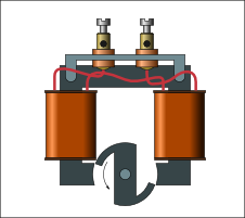 US signal Z-solenoid